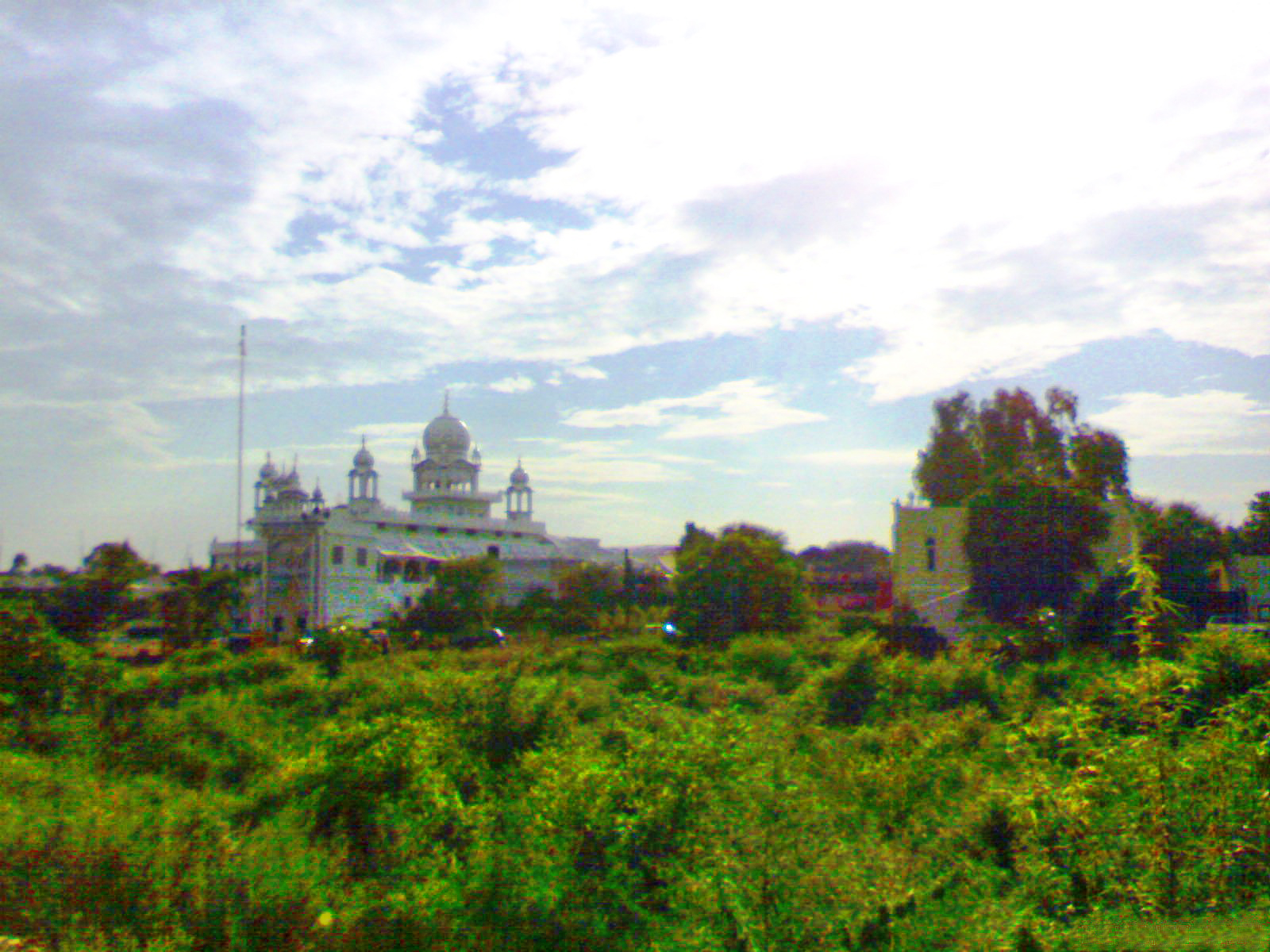 Gurdwara Baba Gurditta Ji1